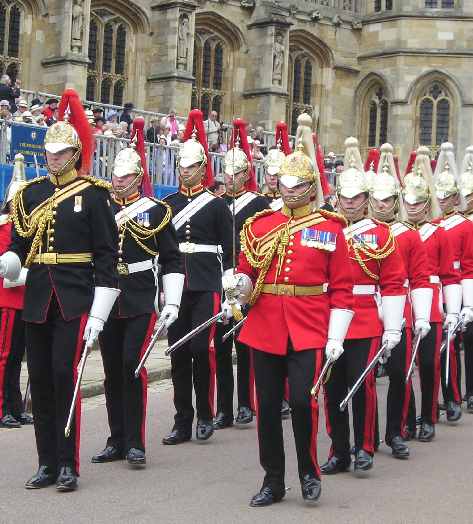 Dismounted members of the Blues and Royals (left) and Life Guards (right), preparing to line the route of the procession to St George's Chapel, Windsor Castle for the annual service of the Order of the Garter.